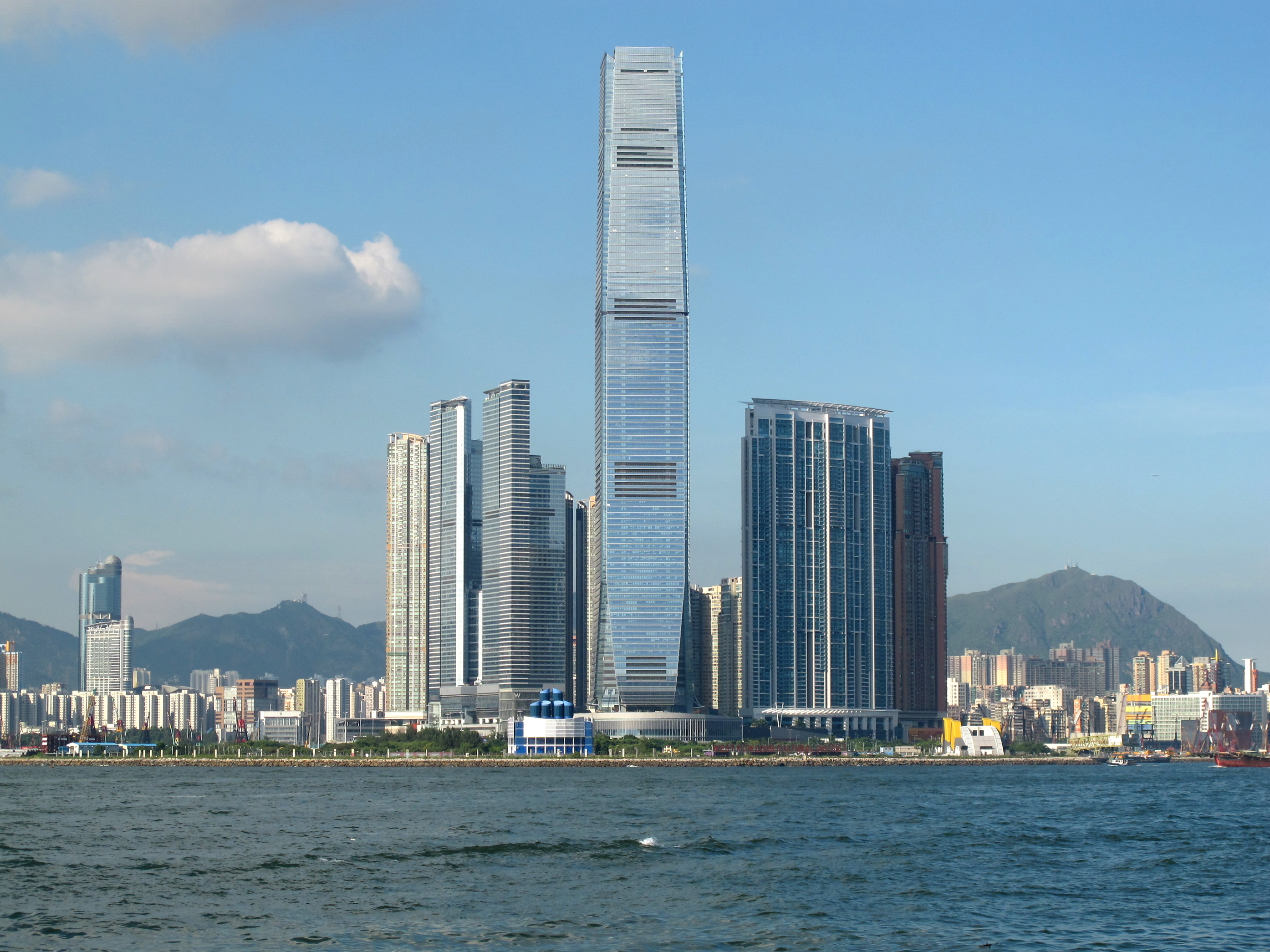 Union Square Overview